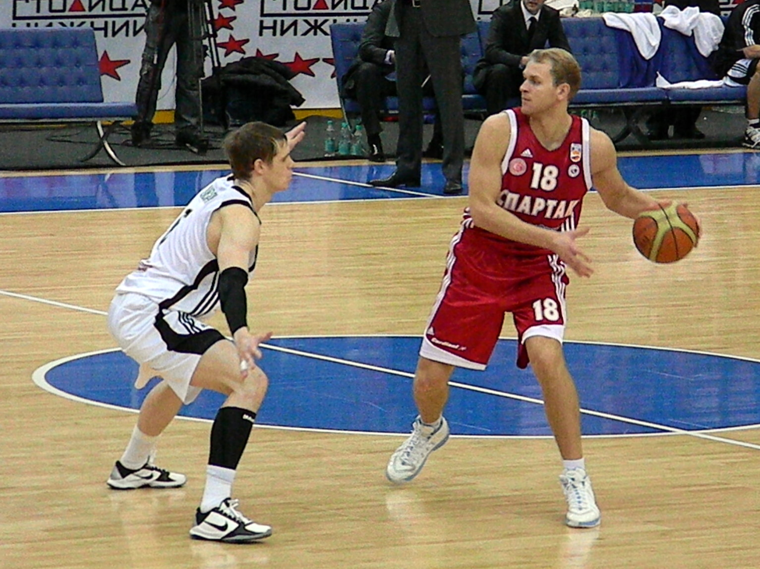 Anton Ponkrashov (red) vs Andrei Ivanov (white) in the game of BC Nizhny Novgorod against Spartak Saint-Petersburg on March 19th, 2011